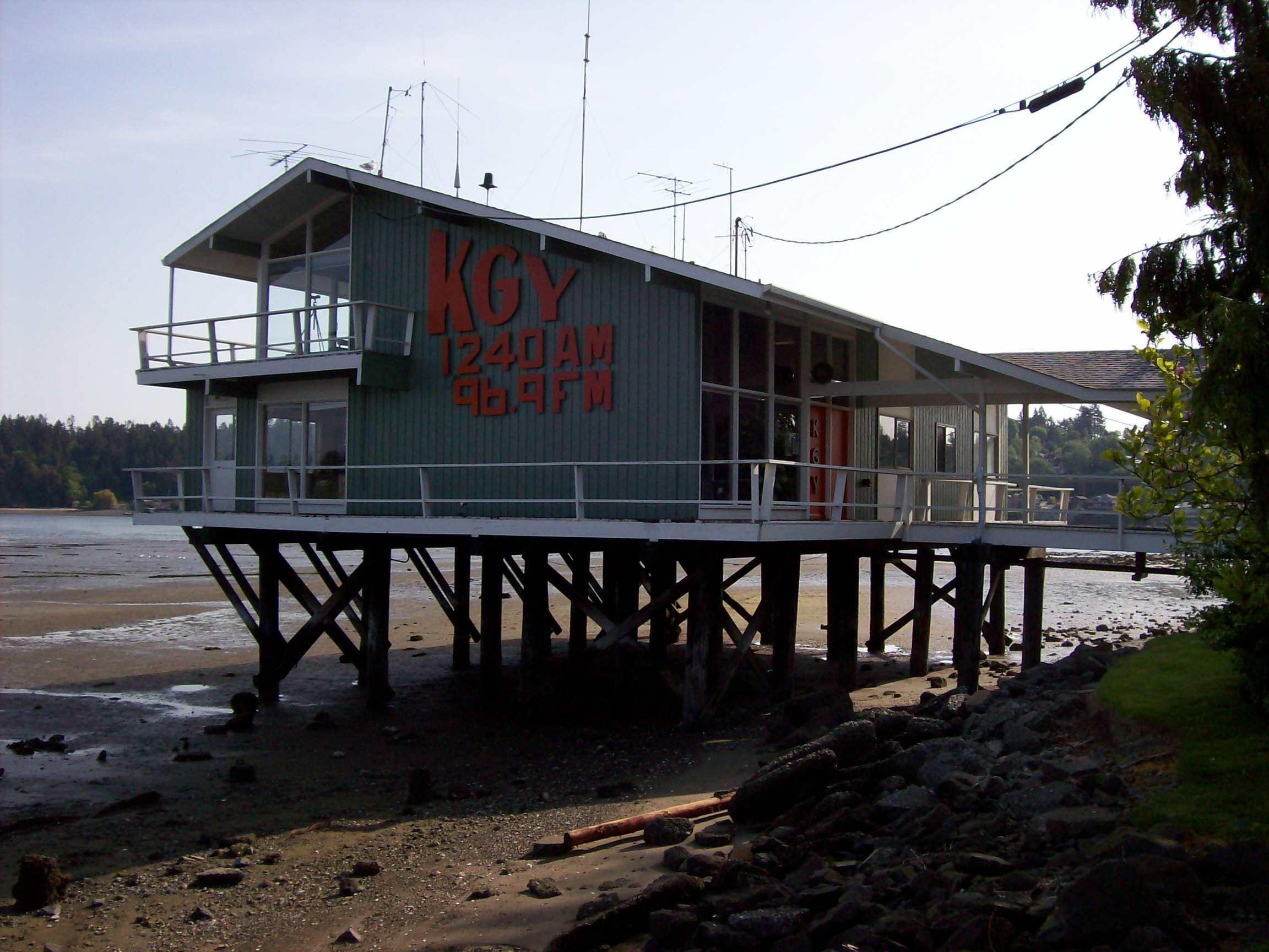 The broadcast studio for KGY-AM and FM, Olympia, Washington. It is located over the tidelands of Budd Inlet, part of Puget Sound